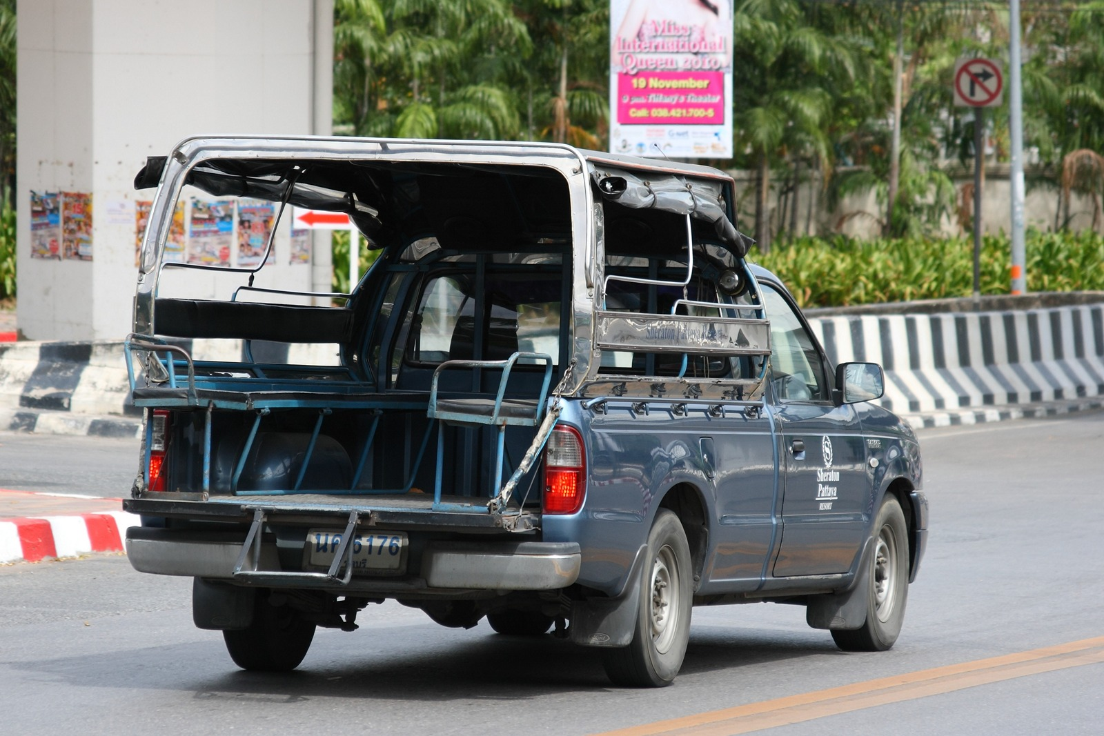 Songthaew in Pattaya, Thailand (Ford Ranger)